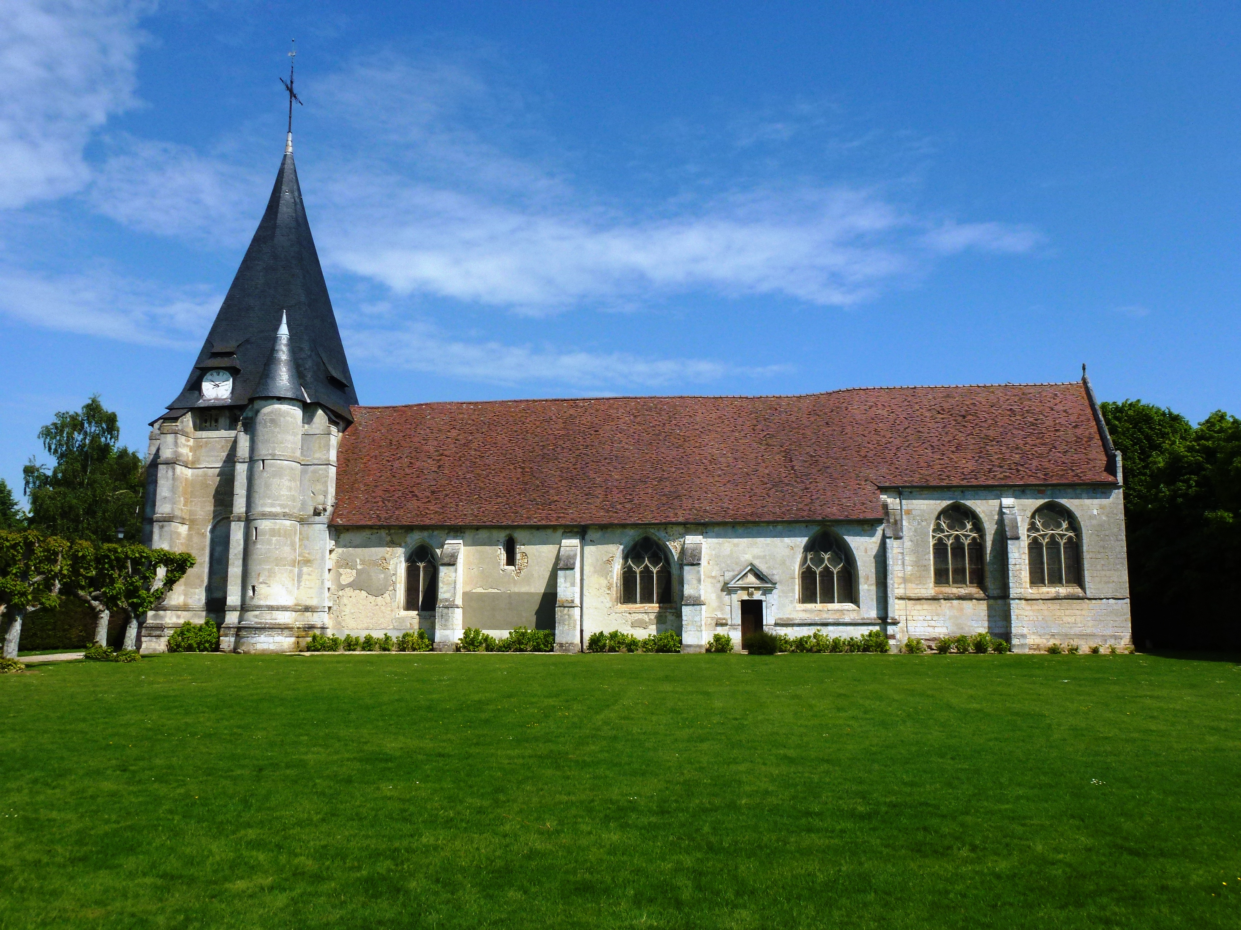 Goupillières (Eure, Fr) église Notre-Dame